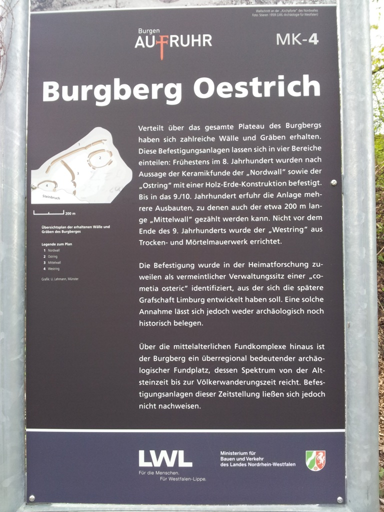 Info-Panel "Burgberg Oestrich" in Iserlohn